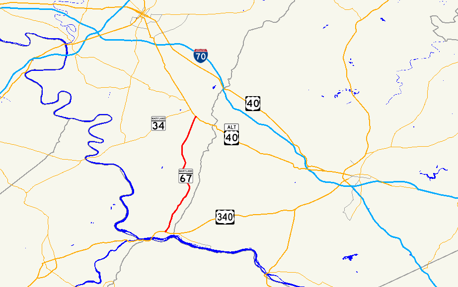 Map of Maryland Route 67